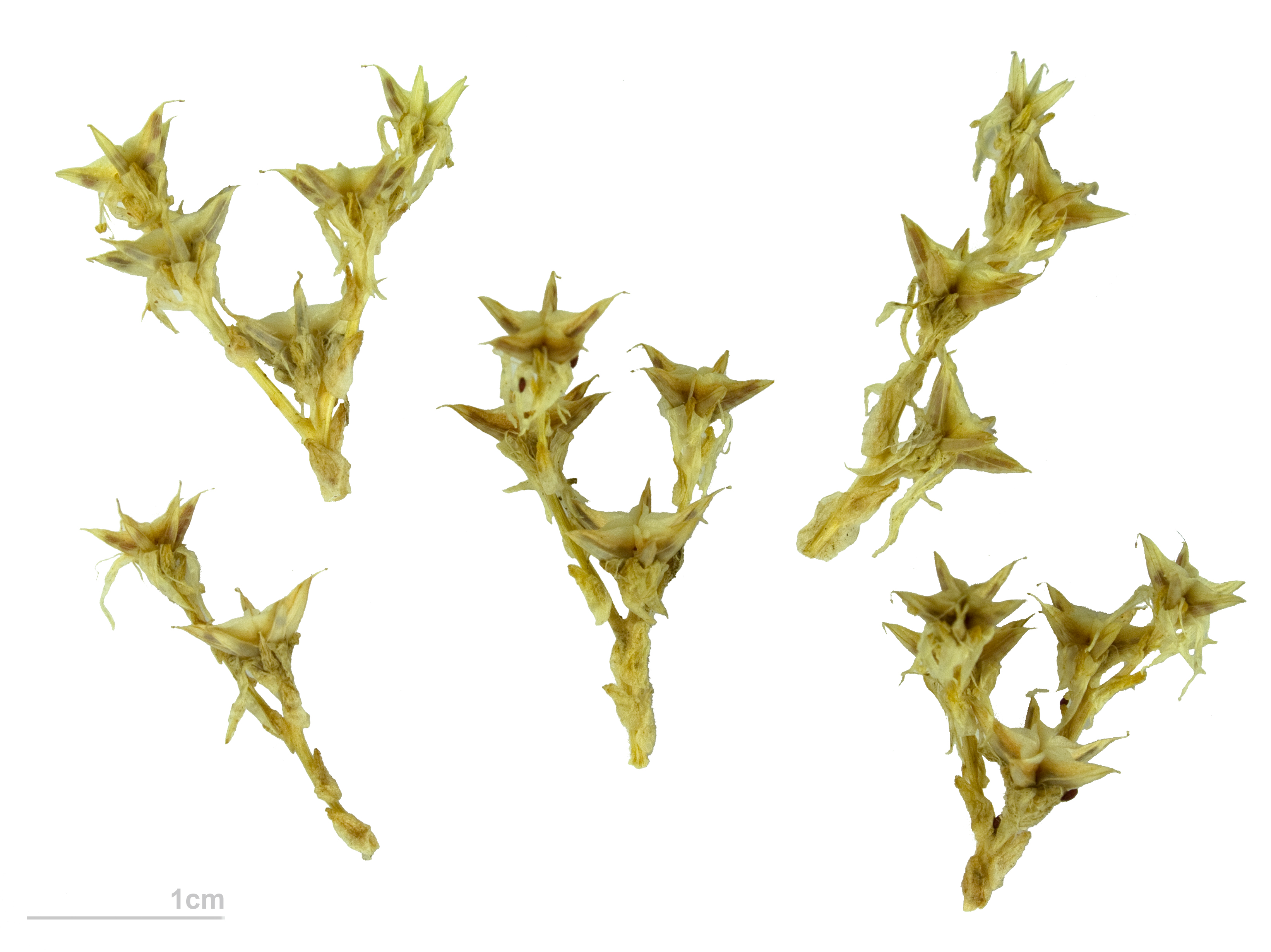 Goldmoss Stonecrop , fruits and seeds